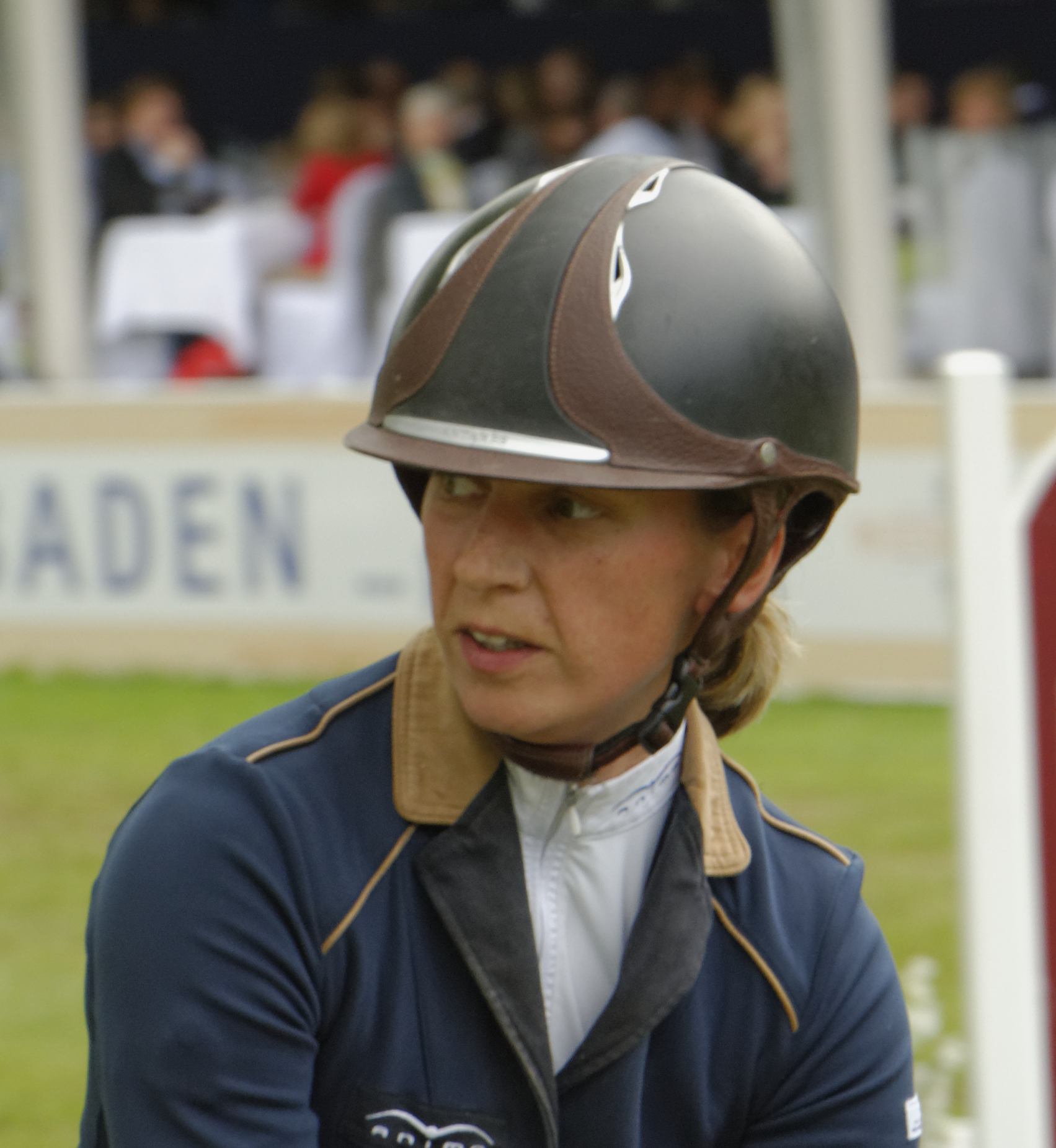 Internationales Pfingstturnier Wiesbaden 2013 The making of this document was supported by the Community-Budget of Wikimedia Germany.